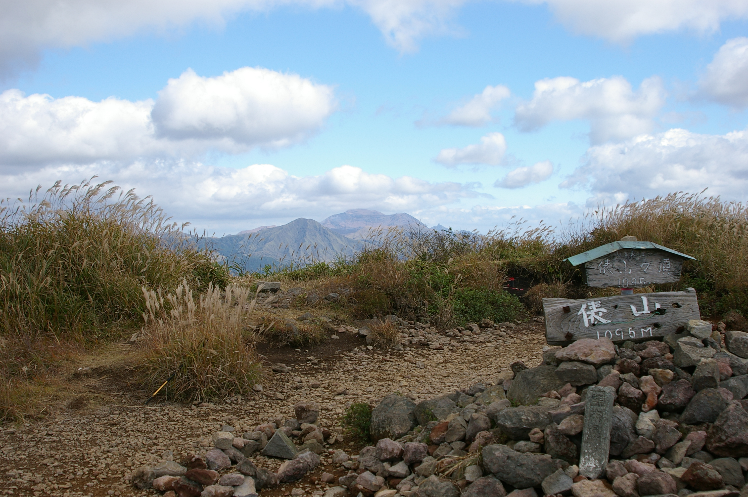 View from top of Tawara-yama mountain, a part of Aso caldera's outer rim, in Kumamoto Pref., JAPAN.